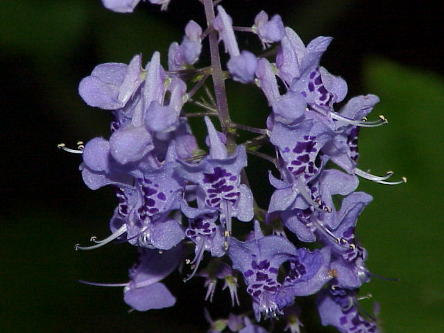 Species: Plectranthus fruticans Family: Lamiaceae Image No. 1